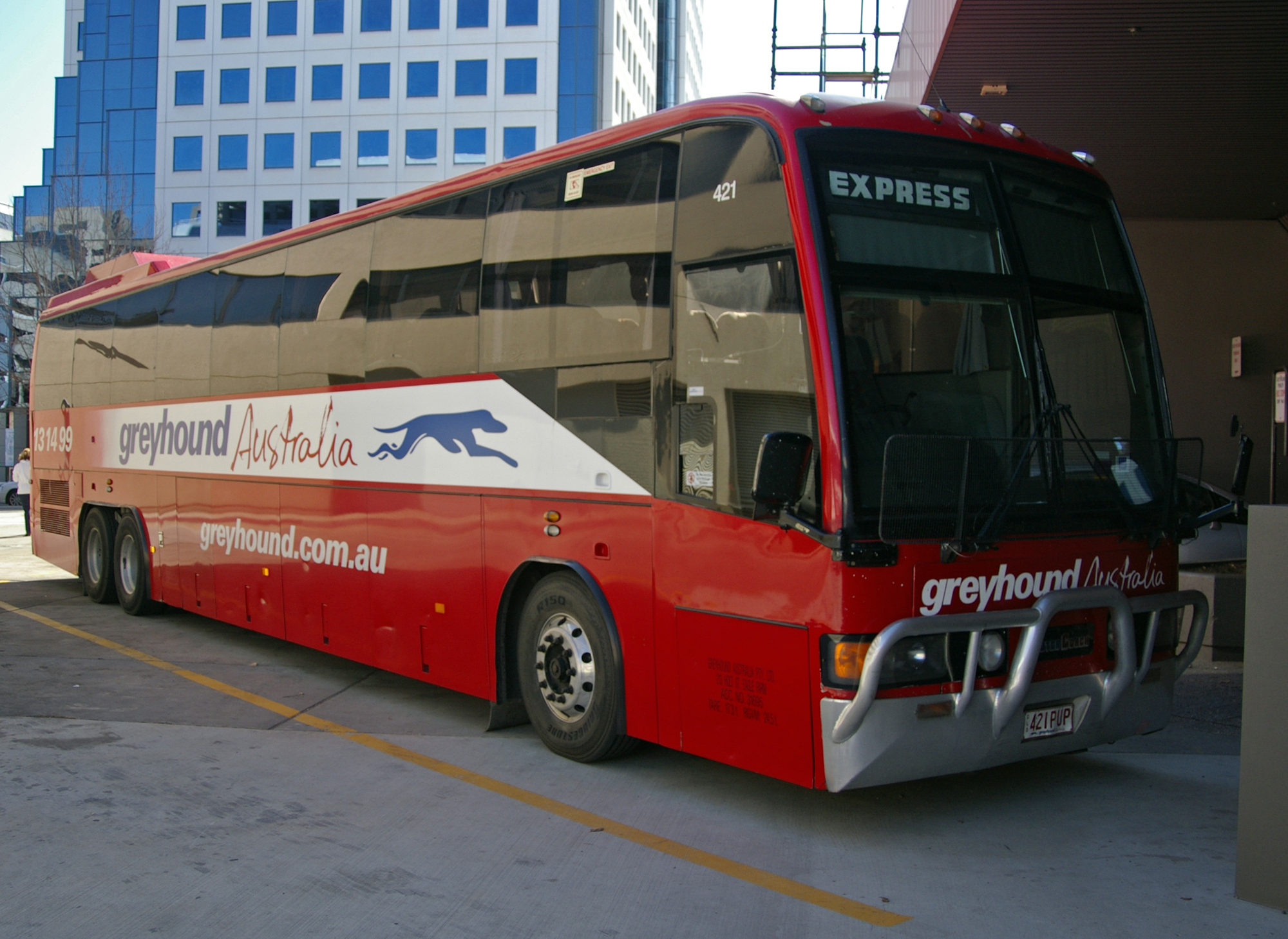 Greyhound Australia MotorCoach Australia (MCA) 14.5-GM Series 60 coach.